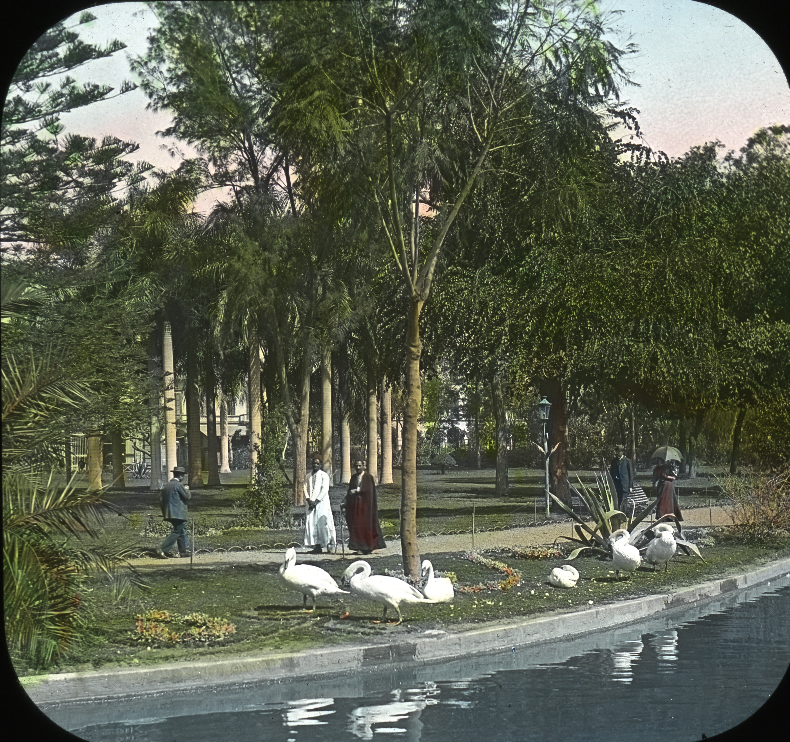 Lantern Slide Collection: Views, Objects: Egypt. General Views\People [selected images]. View 037: Egypt - Esbekiyeh Palace, Cairo., n.d., T. H. McAllister, Manufacturing Optician. 49 Nassau Street, New York. Brooklyn Museum Archives (S10|08 General Views_People, image 9780). Help us map this image by using Suggestify to suggest a location for it.